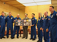 Space Shuttle mission STS-124 astronauts met with Prime Minister Yasuo Fukuda at the Prime Minister's Official Residence in Chiyoda Ward, Tōkyō Metropolis on July 29, 2008.